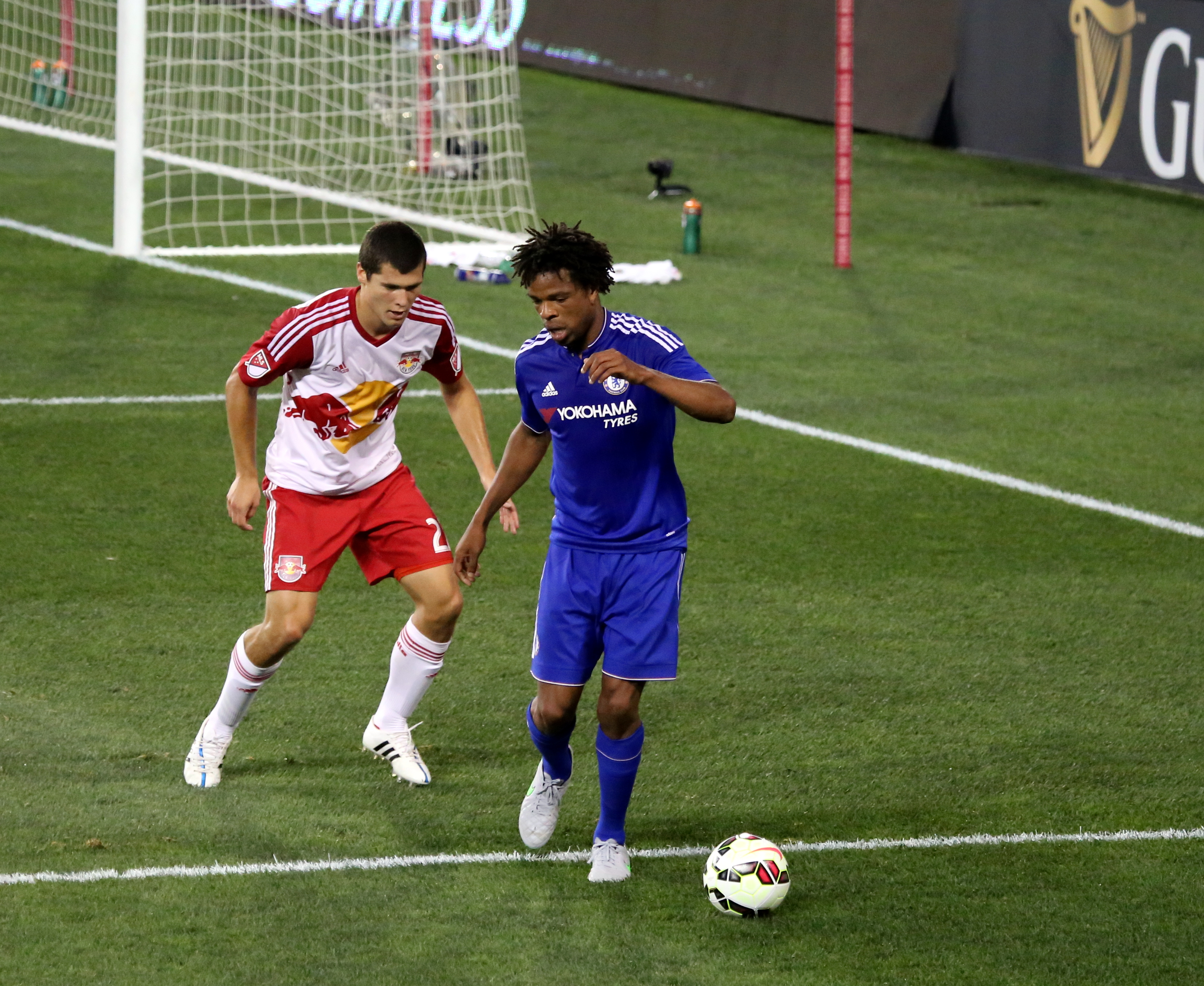 Karl Ouimettee Red Bulls.